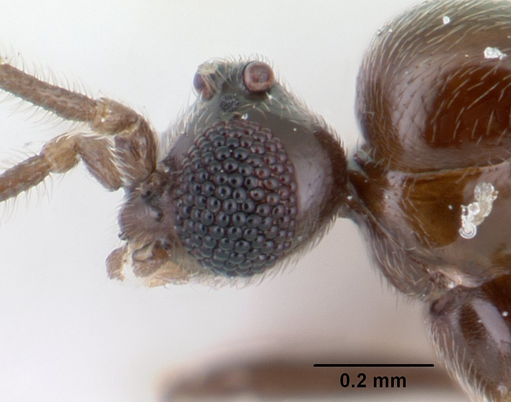 Head view of ant Yavnella argamani specimen casent0178519.